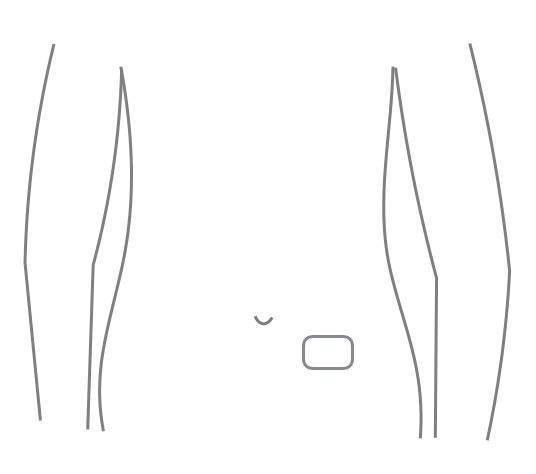 Illustration of patch located on lower abdomen